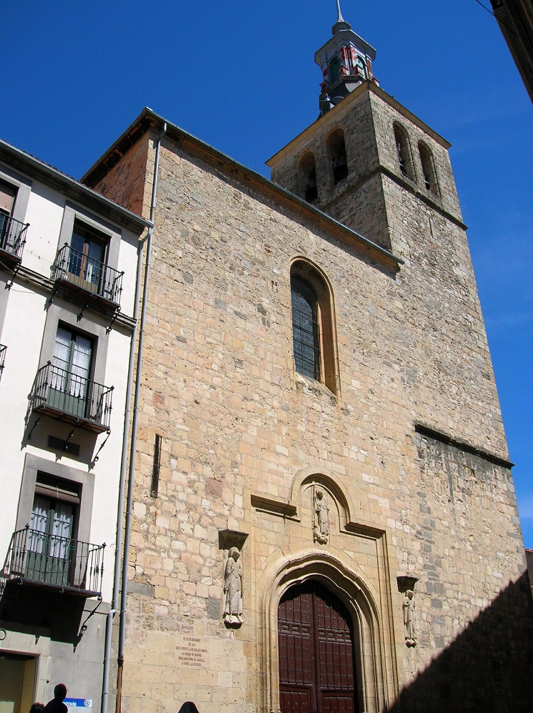 Iglesia de San Miguel, Segovia (España)